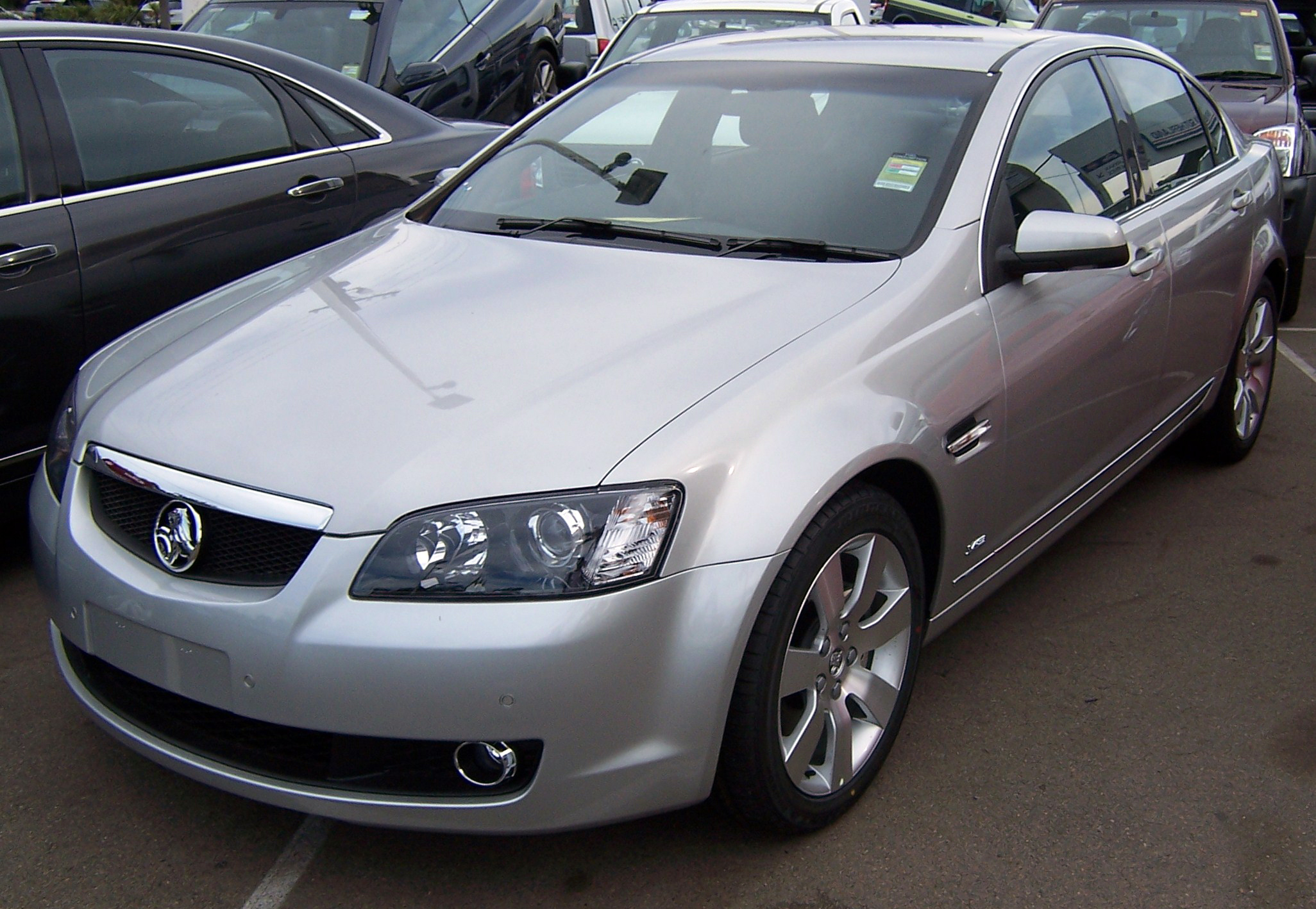 2007 Holden Calais (VE MY08) V sedan. Photographed at McGrath Sutherland Holden, Kirrawee, New South Wales, Australia.